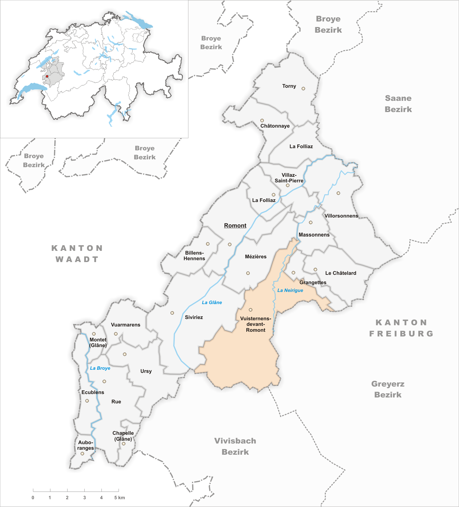 Municipality Vuisternens-devant-Romont